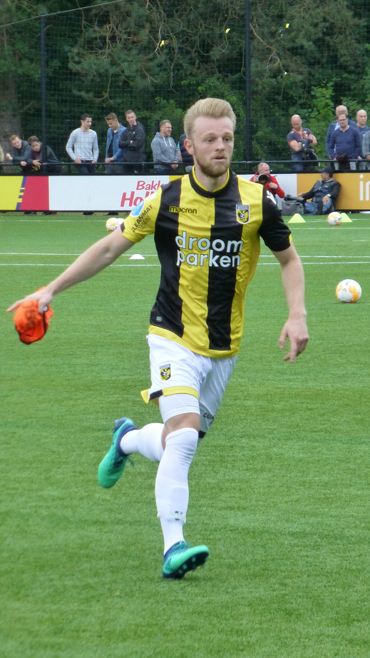 Max Clark at the first Vitesse training session season 2018/2019